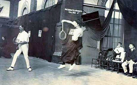 George Alan Thomas and Ethel Thompson, English badminton player